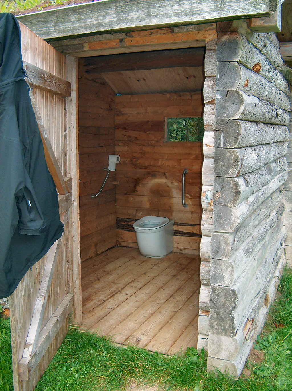 Composting toilet on en resting place on the nature path Horsens-Silkeborg, Denmark